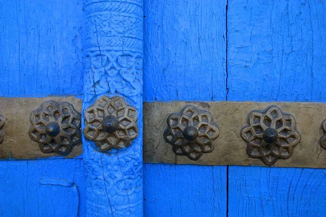 Detail of door in the Blue Mosque of Mazar-e-Sharif, Afghanistan.